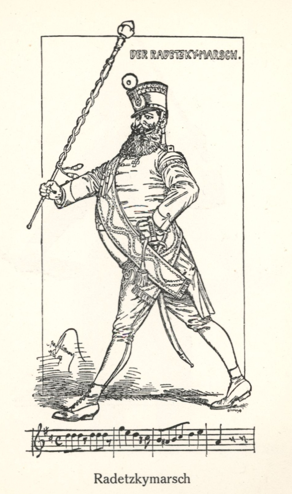 Radetzky March; drawing by Hans Schließmann